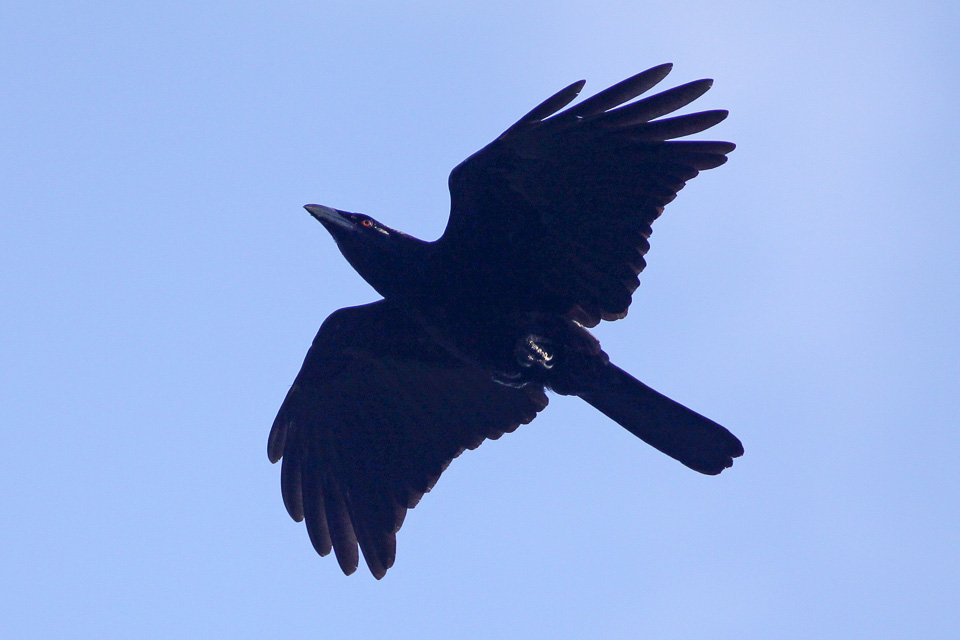 Los Haitises National Park